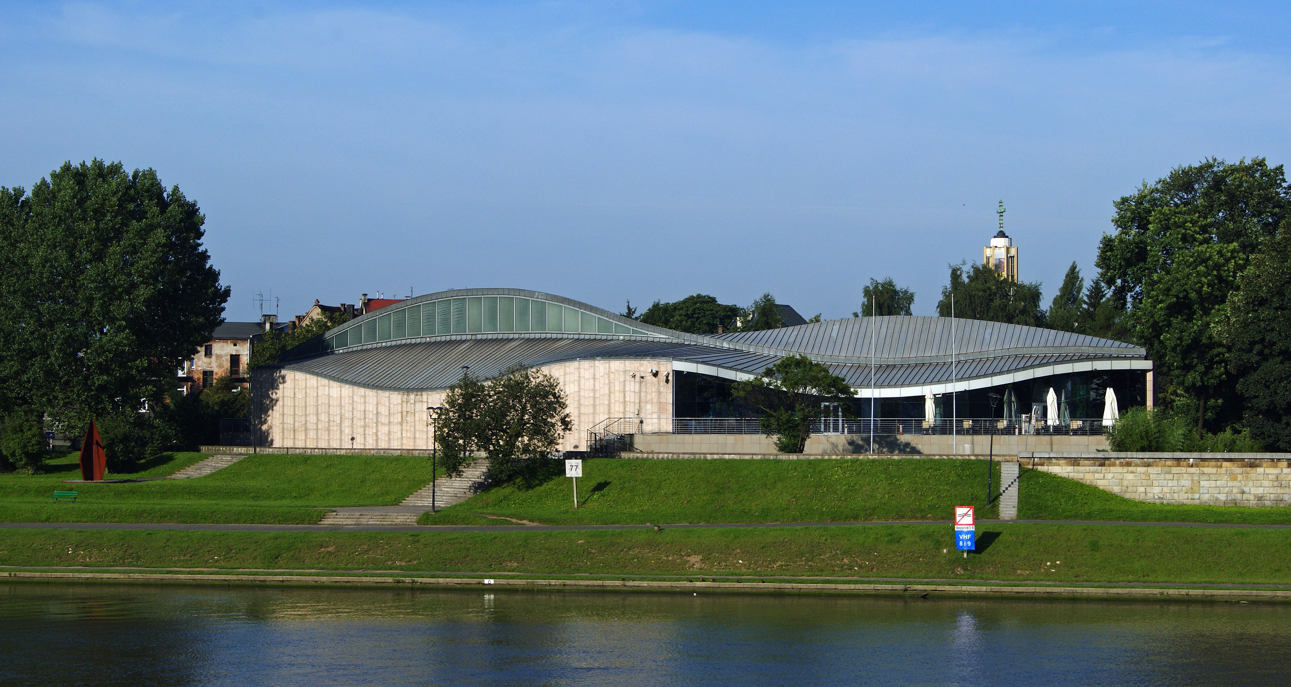 Manggha Museum of Japanese Art and Technology, 26 Konopnickiej street, Cracow, Poland (Arata Isozaki, 1994). Architecture was inspired by forms in nature such as waves of nearby river Vistula and waves from Hokusai's paintings. (source: Krzysztof Ingarden "Architektura - idea")